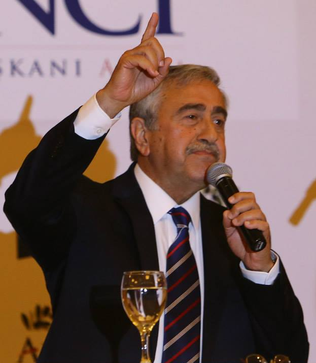 A picture of Mustafa Akinci during his presidential election campaign.